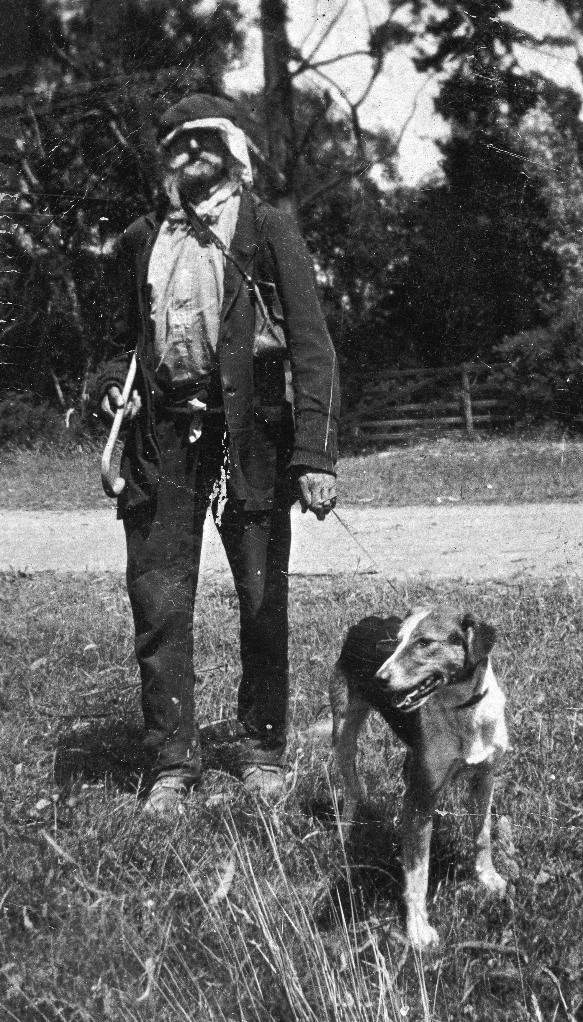 The swagman Ned Slattery, generally known as "The Shiner", and his dog. Photo taken around 1920, probably somewhere in North Otago or South Canterbury, New Zealand.